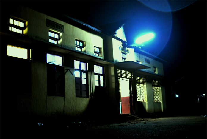 Mayyanad Railway Station